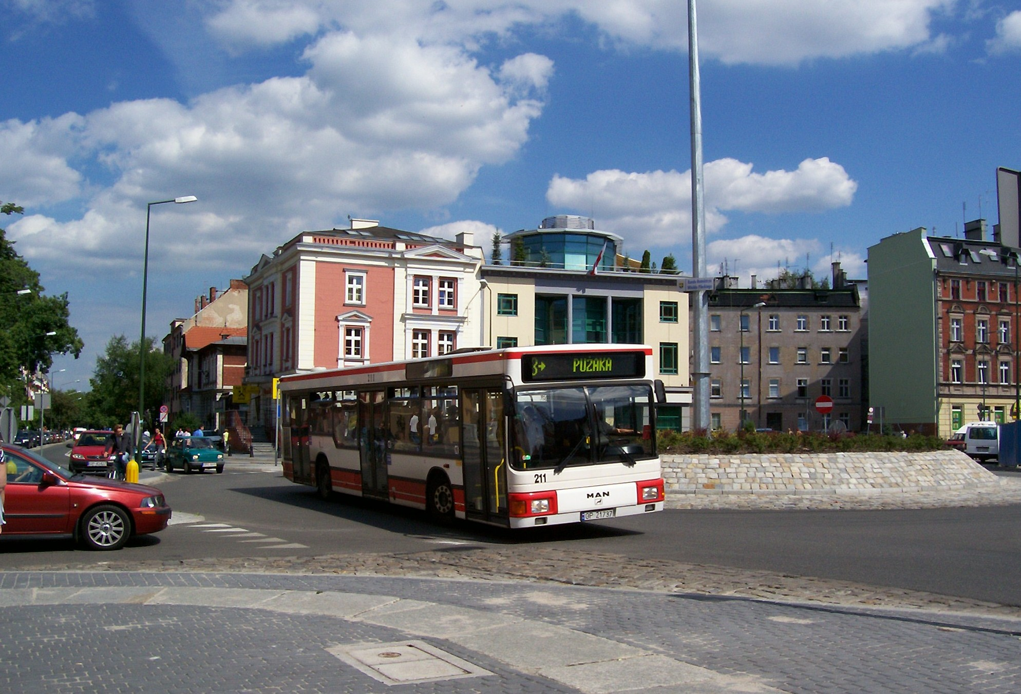 MAN NL 222 bus (#211) at Witold Pilecki's roundabout in Opole, Poland. Built 2002, MZK Opole operator.